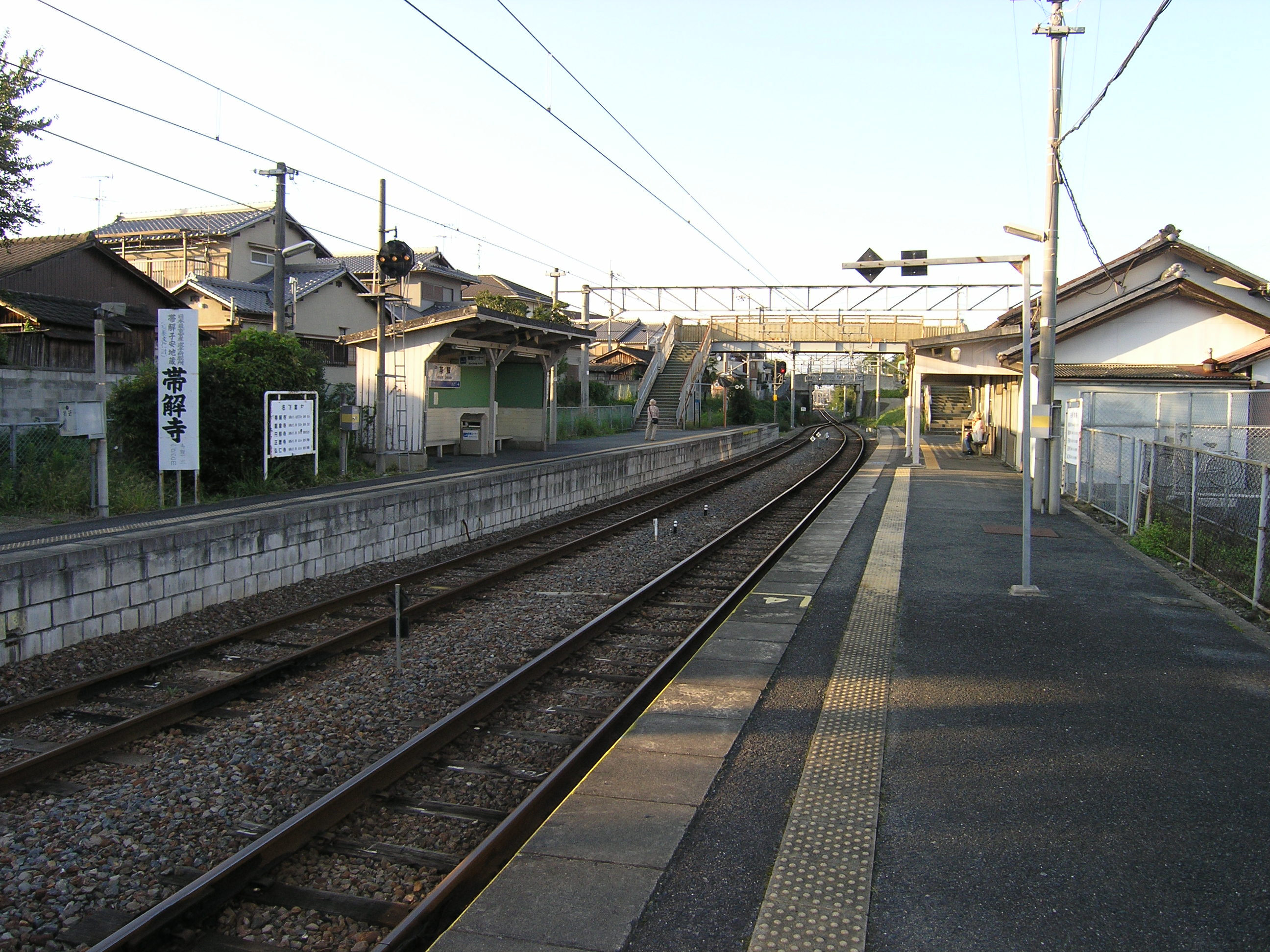 Obitoke Station is a station of Sakurai line,West Japan Railway Company